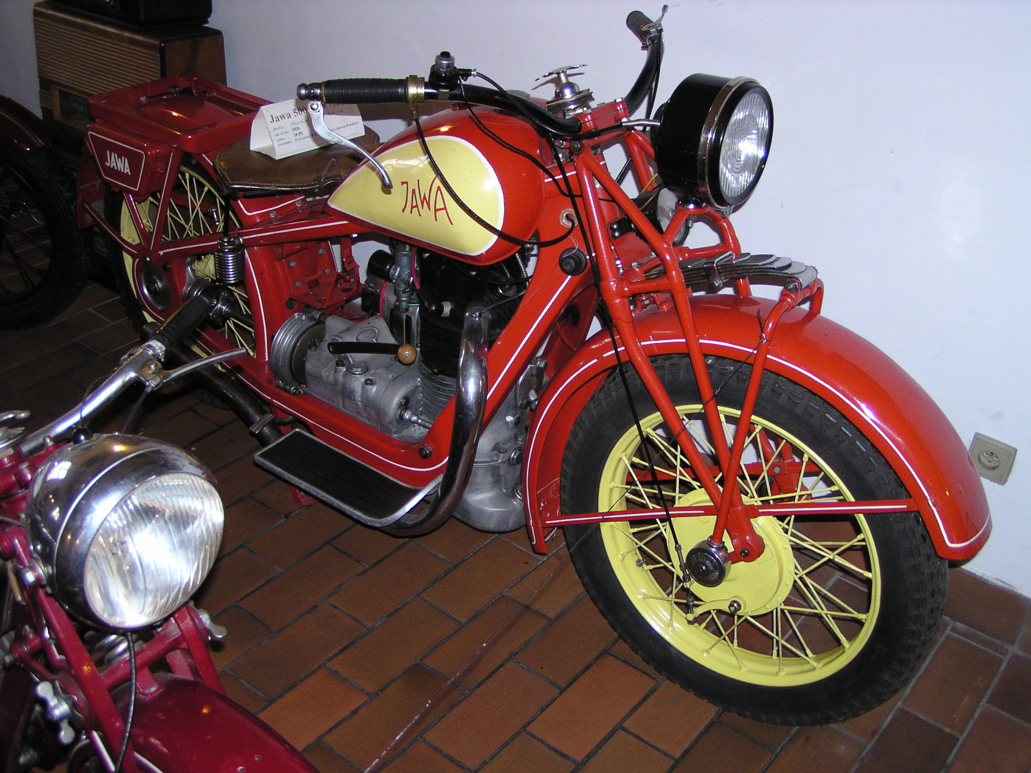 Jawa 500 OHV at Motorcycle Museum in Lesná near Znojmo (Muzeum motocyklů Lesná u Znojma)